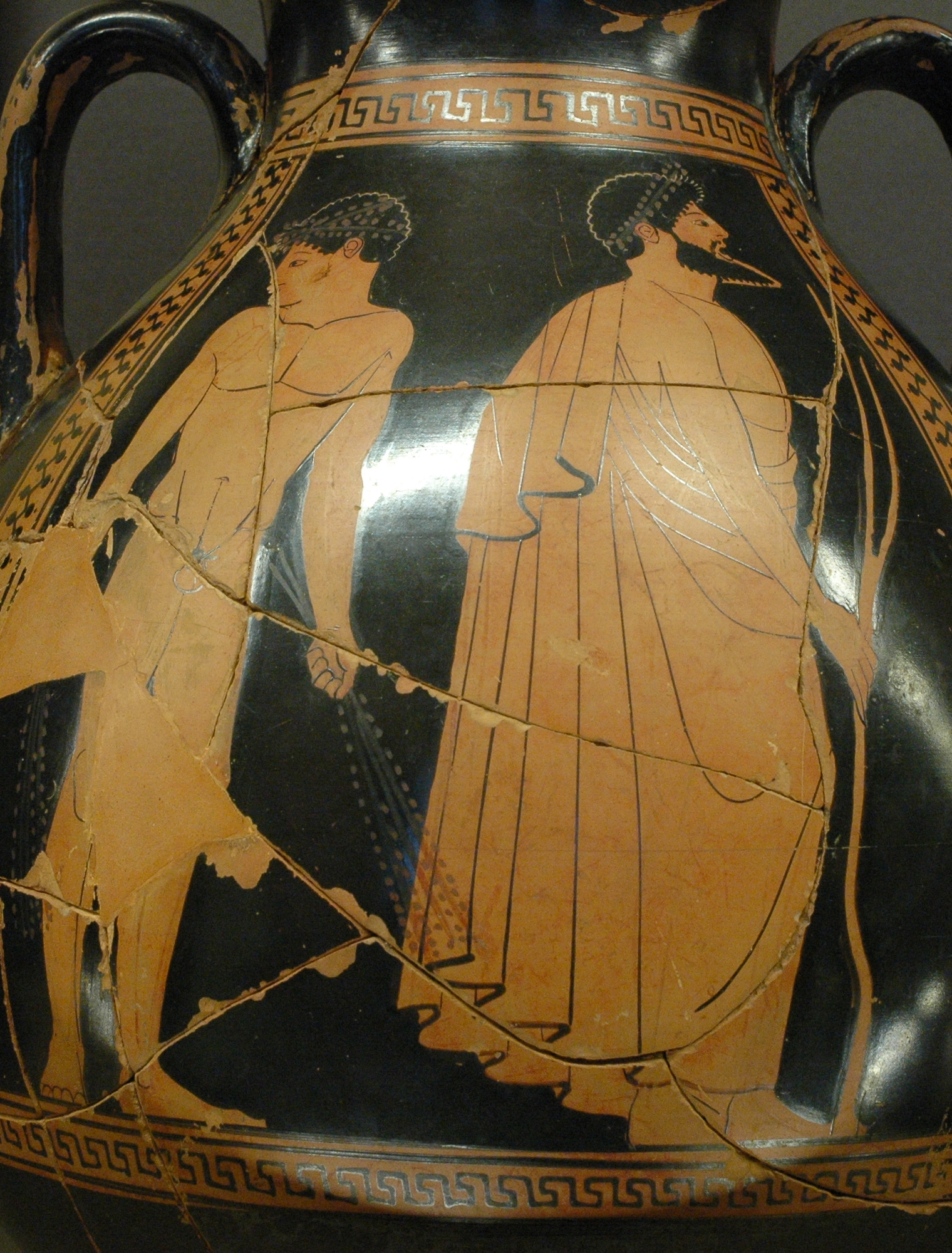 Paedotribe (gymnastics teacher) and one of his athletes. Side B from an Attic red-figure pelike.